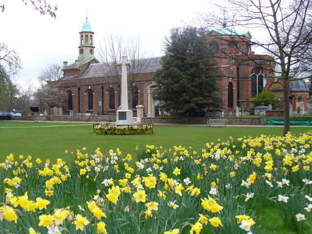 The parish church of St. Anne's, Kew, Richmond upon Thames, London, with the War Memorial in front of it